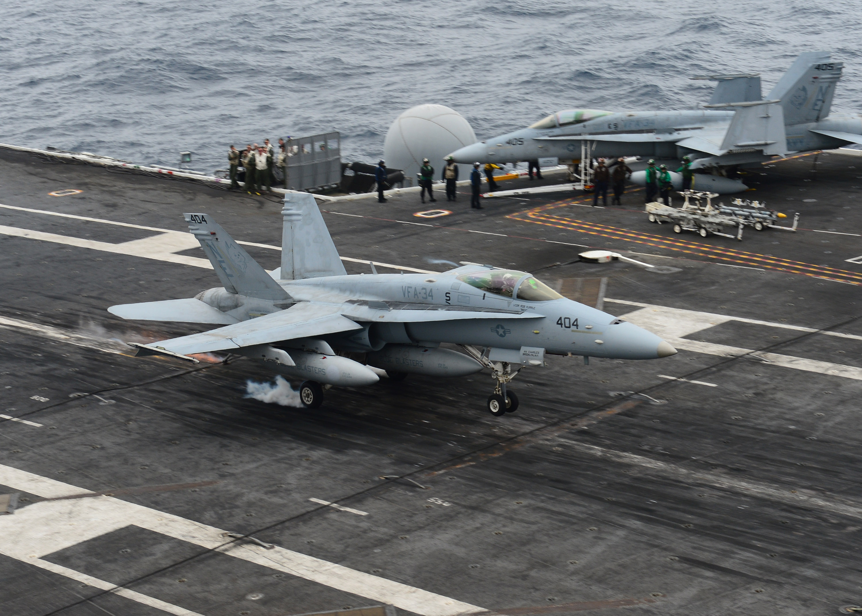 A U.S. Navy McDonnell Douglas F/A-18C Hornet assigned to Strike Fighter Squadron (VFA) 34 "Blue Blasters" lands on the flight deck of the aircraft carrier USS Ronald Reagan (CVN-76). Ronald Reagan was underway in the Pacific Ocean, conducting tailored ship's training availability.